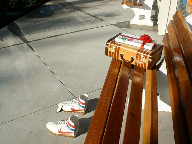 ideal family-friendly photo shoot near Walt Disneyland